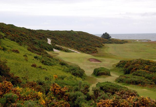 6th hole at Royal Dornoch, from behind the tee. Named "whinny Brae", this 161 yard Par 3 has a certain reputation. The gorse flowers have faded a bit towards the end of June, even if the thorns haven't. Compare this with the 1st Geograph for square NH8089....